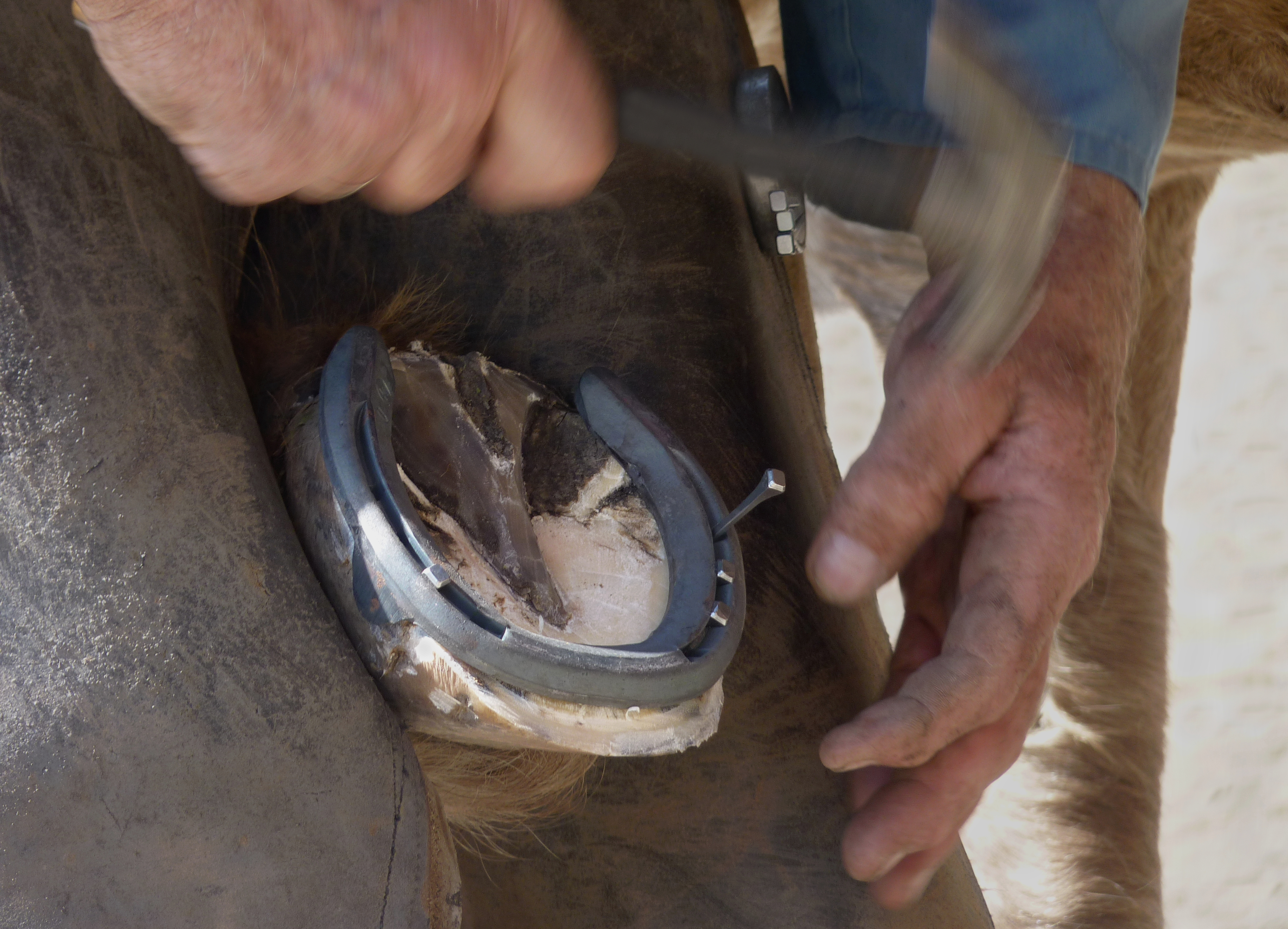 Shoeing of the horse by the farrier, picture taken in Mouscron, Belgium.